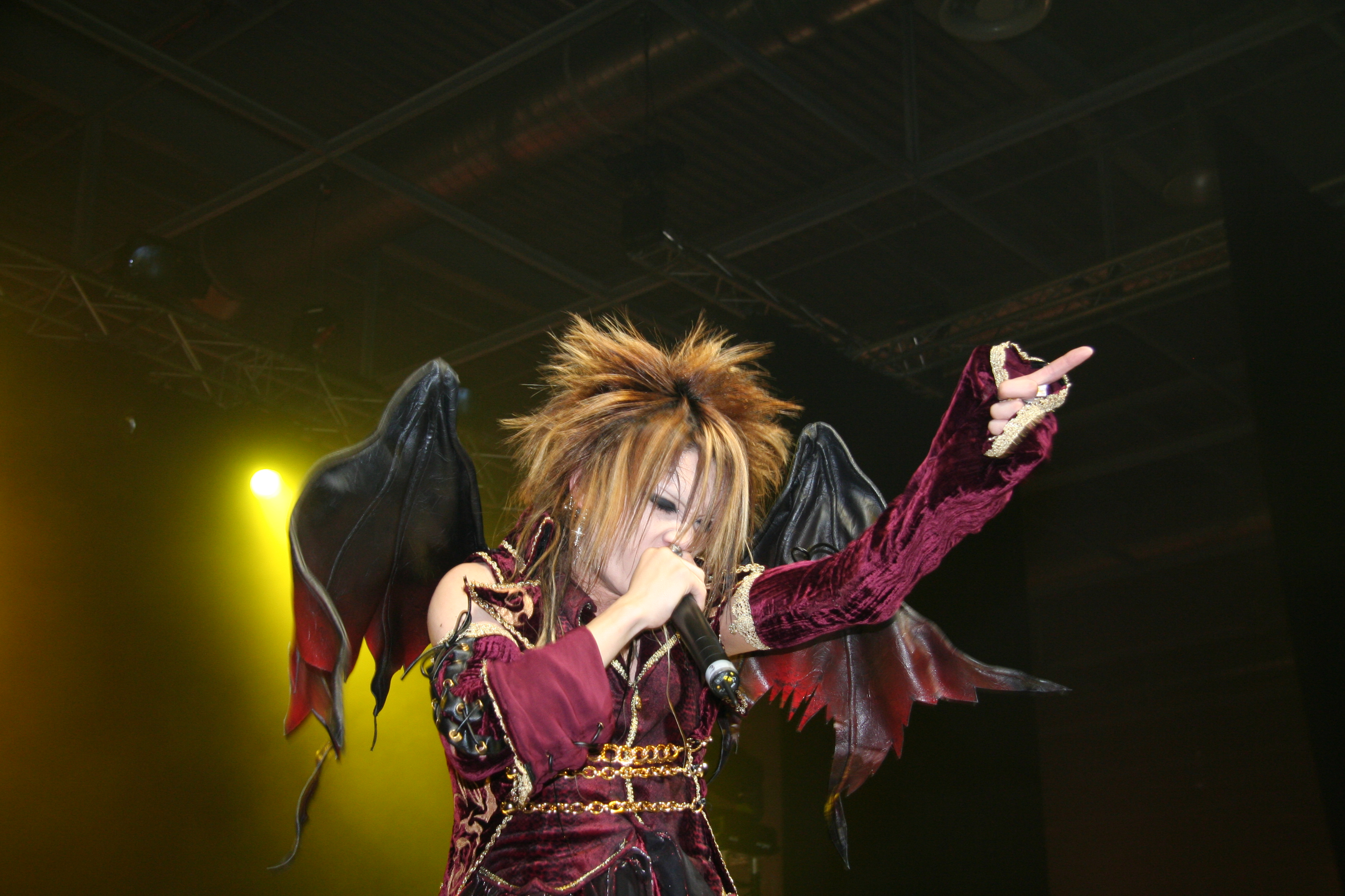 Dio - Distraught Overlord live at Japan Expo 2007 (Paris, France).